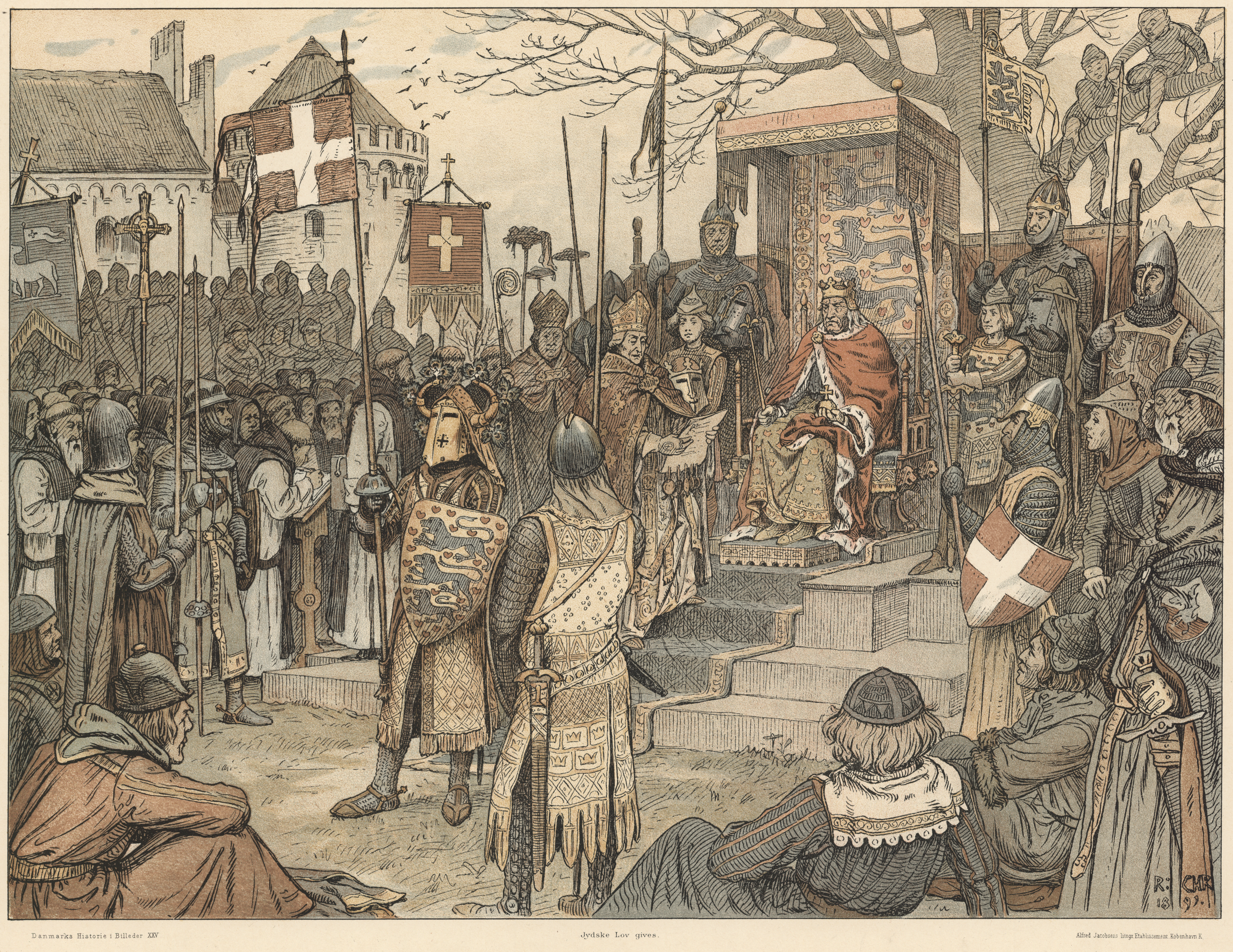 Jyske Lov (The Law of Jutland) was the third and last of the regional laws instituted by the Danish king Valdemar II. It was signed in the last year of his reign (1241) at his castle in Vordingborg. Colour lithograph on paper, glued on cardboard. Signed lower right: R: Chr 1891. Text: Danmarks Historie i Billeder XXV Jydske Lov gives. Alfred Jacobsens litogr. Etablissement, København K. Published in 1898, documented in V.E. Clausen: Folkelig grafik i Skandinavien, 1973, page 144. Cropped by uploader.